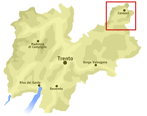 Position of the valley Val di Fassa